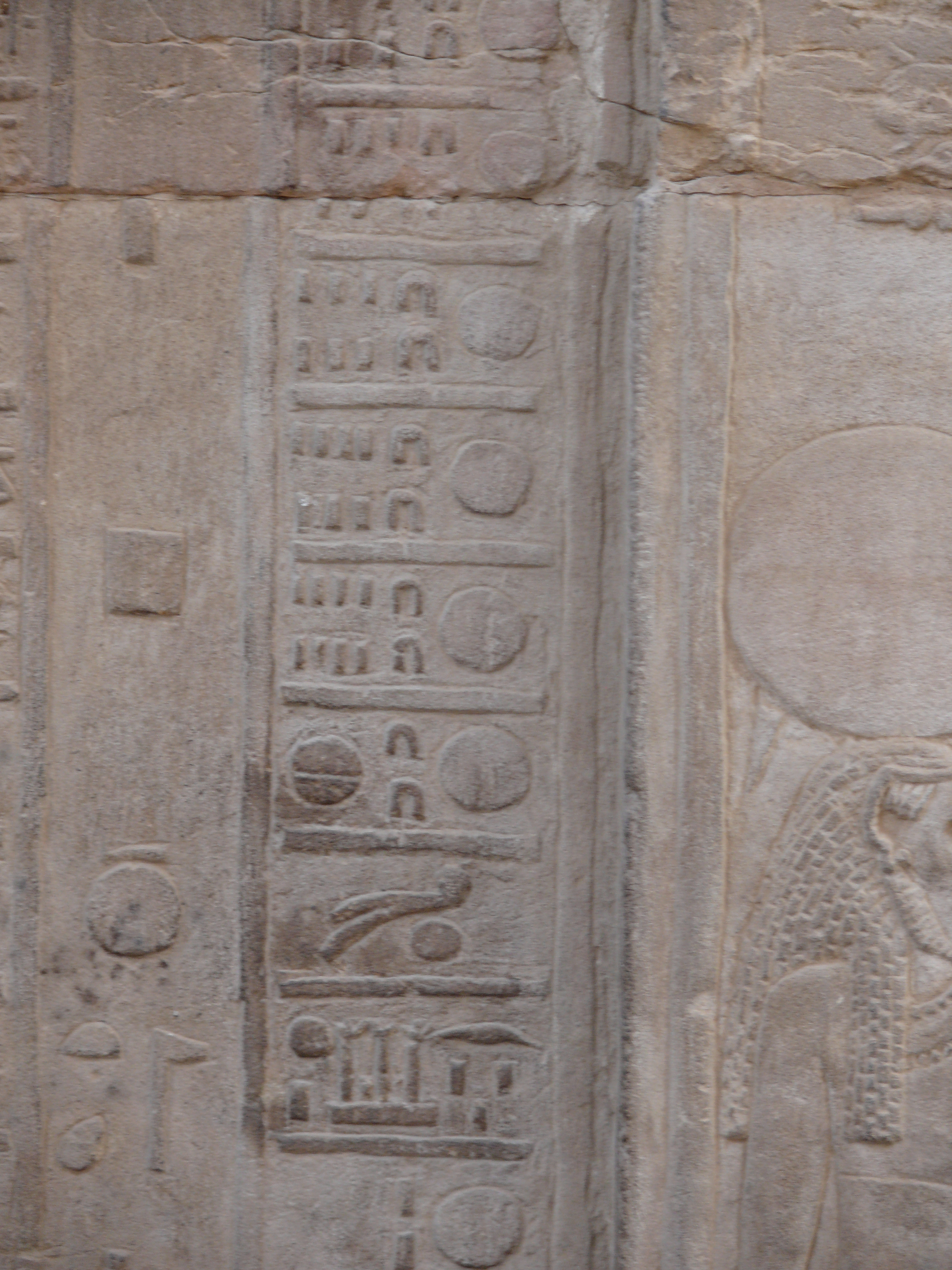 Calendar in the temple of Kom Ombo. The calendar shows the figures for the days of the month (roll over the picture) and the hieroglyphics for the inundation season Akhet. On the thirtieth of the month of the Shemu season one can see the hieroglyphic for Peret, which indicates the end of the harvest season. The next day is Akhet.